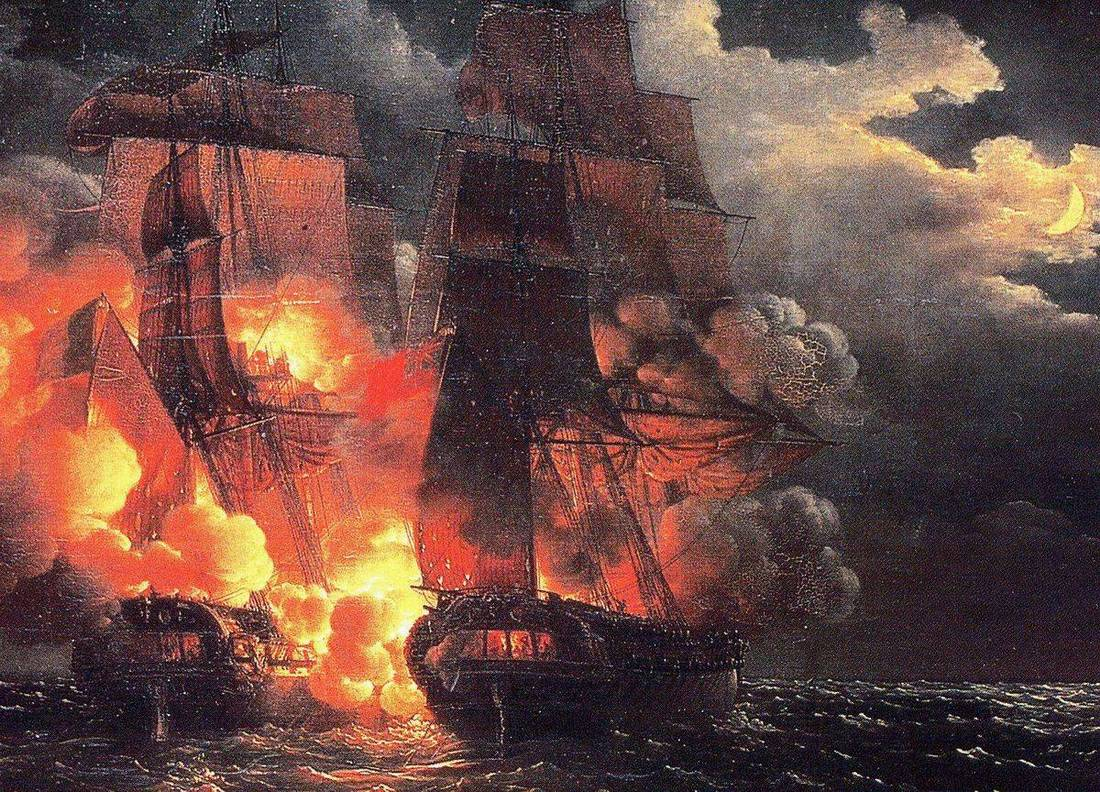 A depiction of the battle between the French frigate Aréthuse and the H.M.S. Amelia off the shores of Guinea, 7 February 1813.